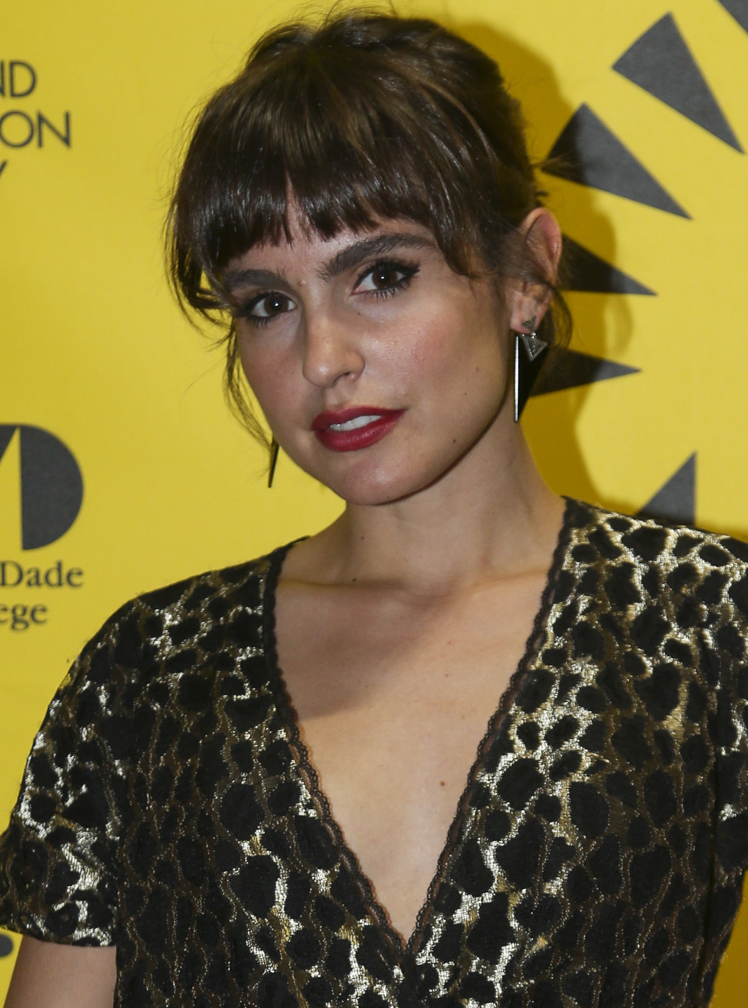 Veronica Echegui at the 2017 Miami International Film Festival presentation of Don't Blame it On Your Karma! at Regal Theater during Miami Film Festival on March 10, 2017